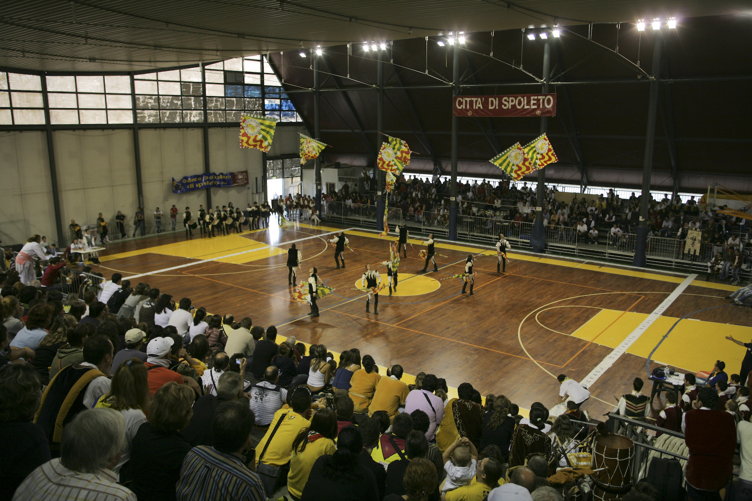 Sbandieratori e Musici Città di Gallicano (LU)